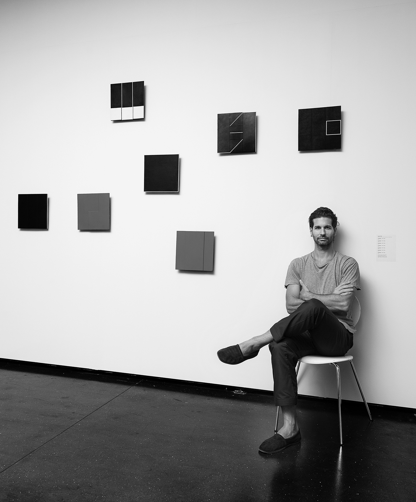 Lucio Salvatore, Artwork Transmigração (2018)